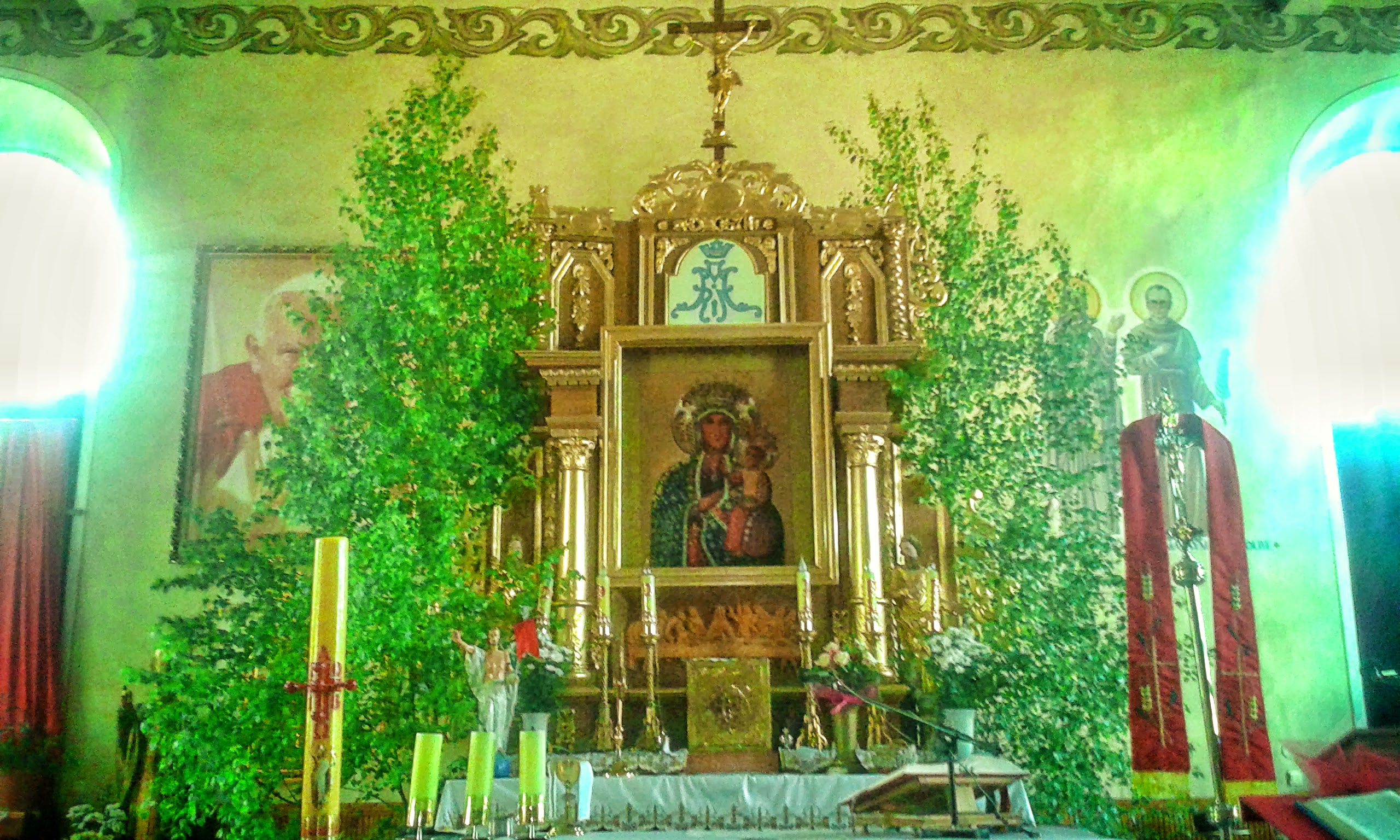 Baroque church in Drygały.